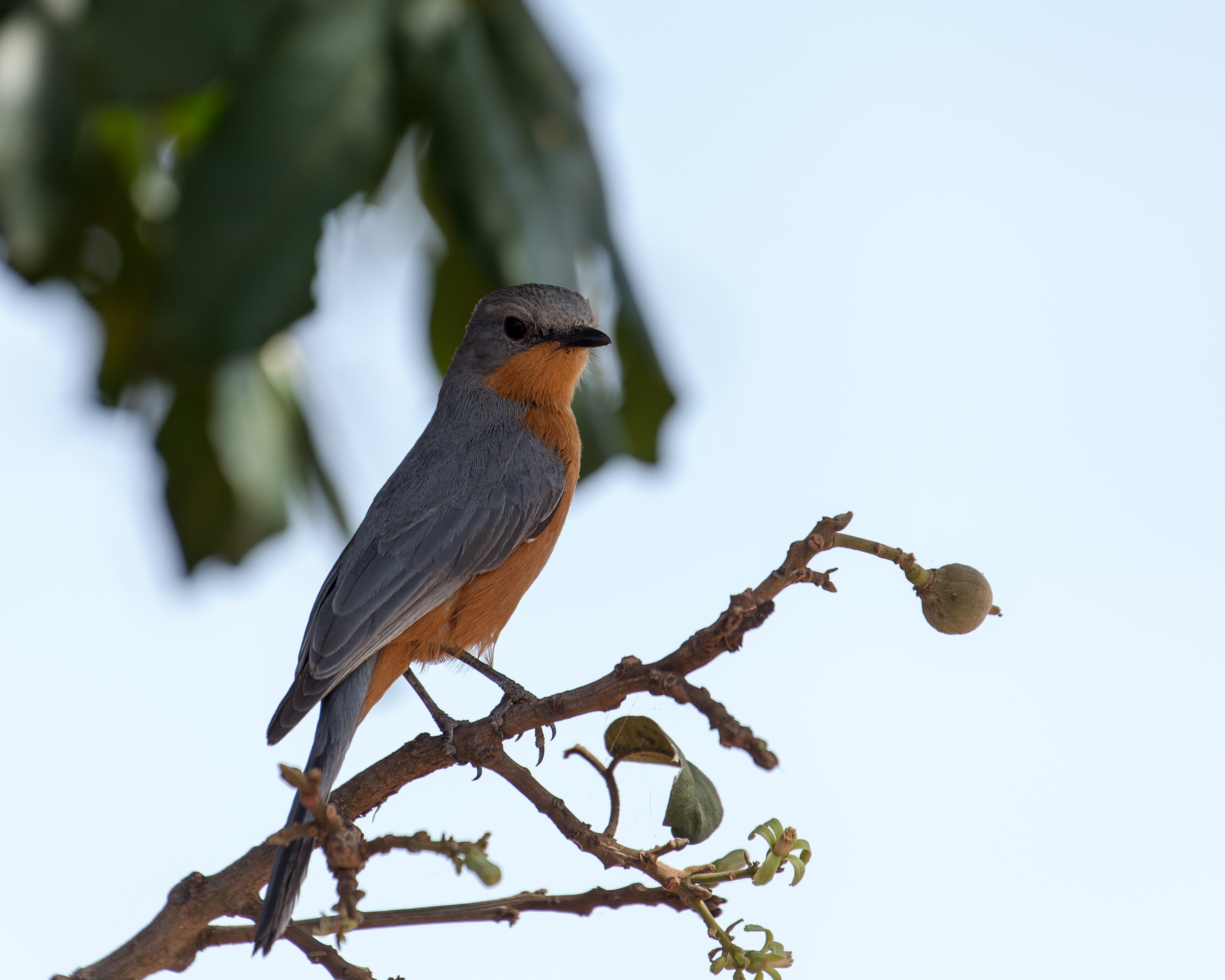 Empidornis semipartitus (en: silverbird, de: Silberschnäpper)